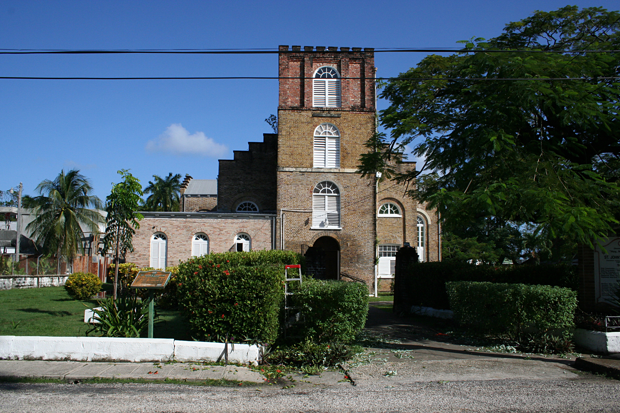 St. John's Cathedral, Belize City